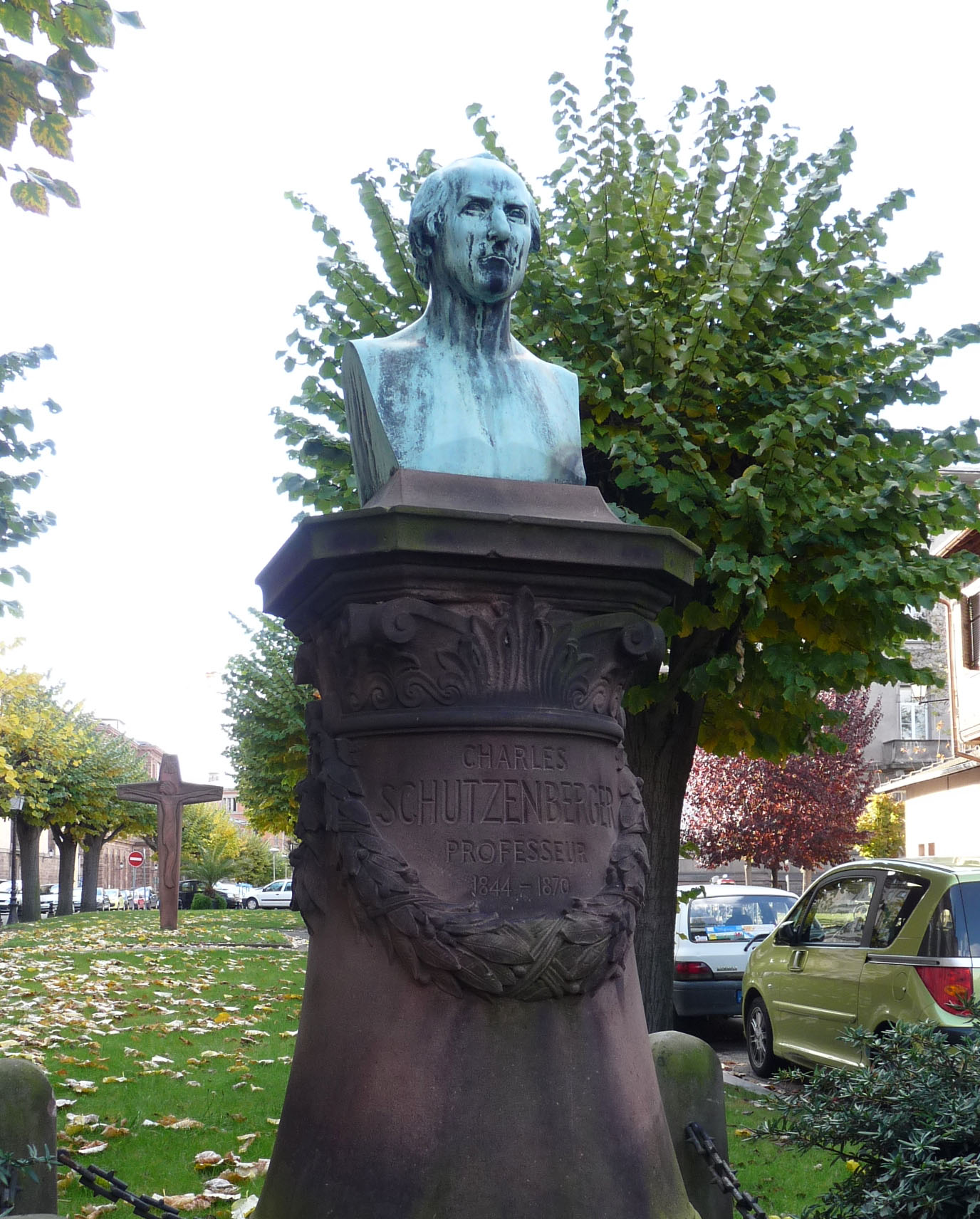 Statue of Pr. Charles Schutzenberger inside Strasbourg hospital